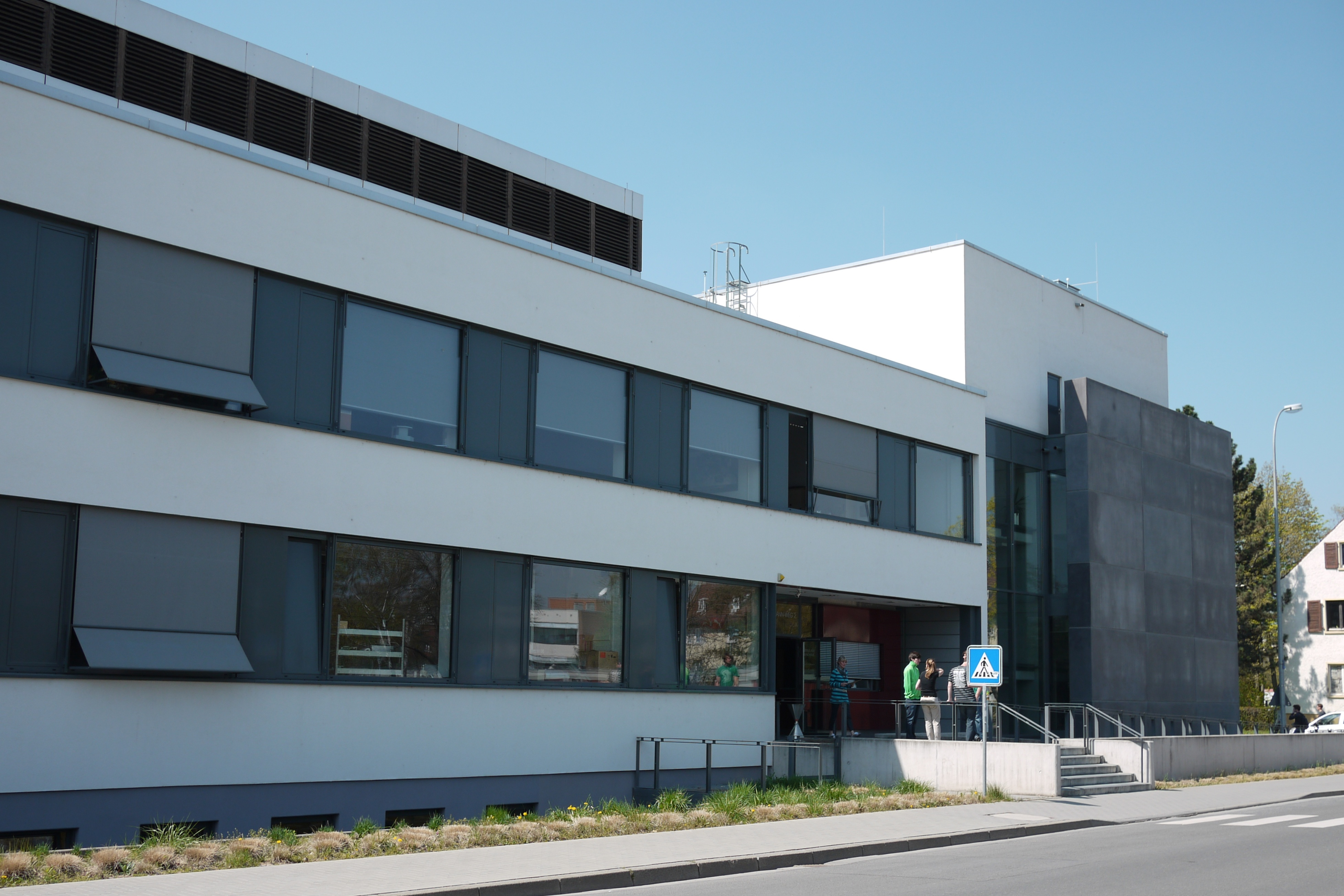 Institute for Nuclear Chemistry, Johannes Gutenberg University Mainz